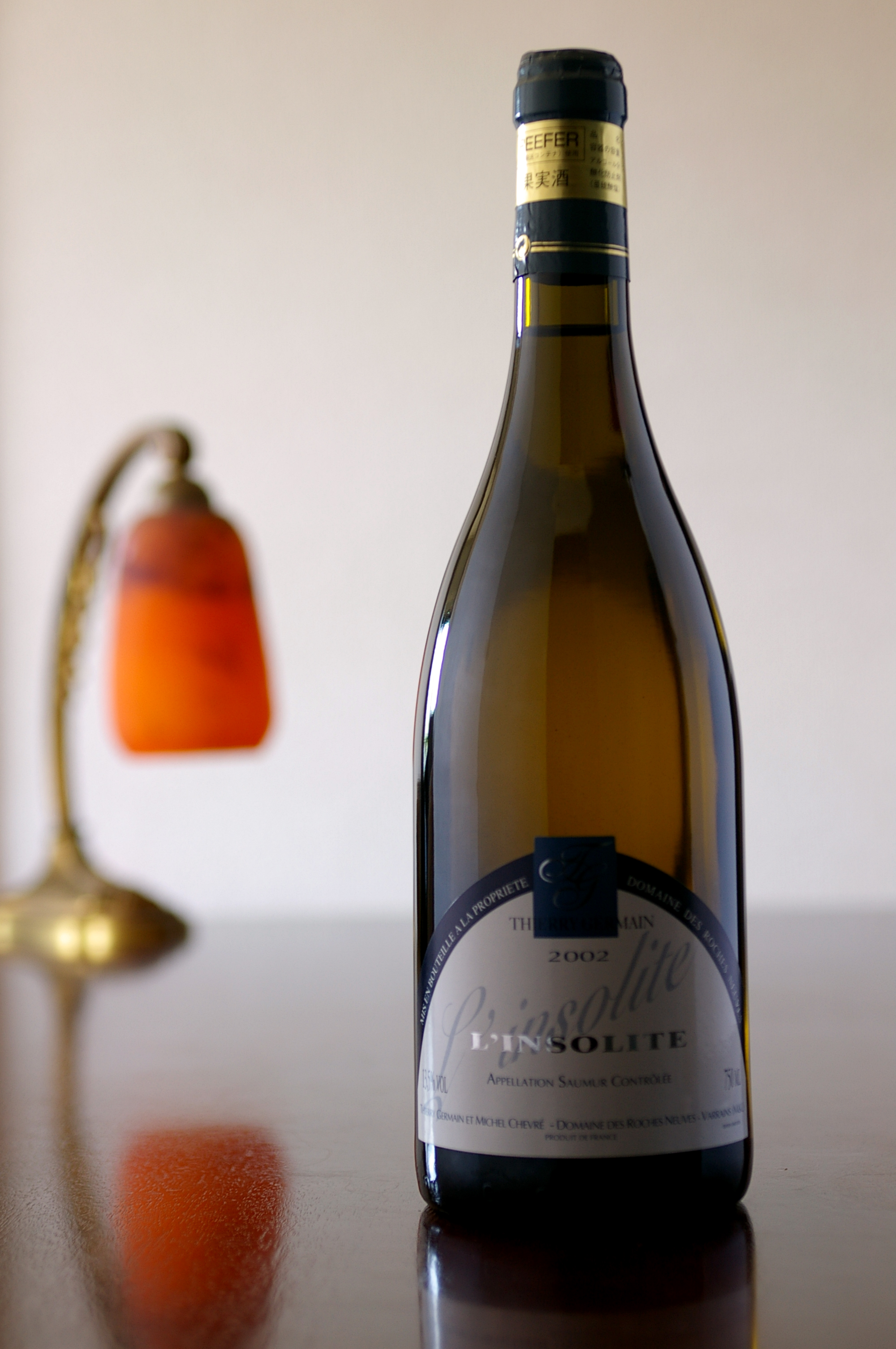 A French wine from Saumur made from Chenin blanc in the Loire Valley.